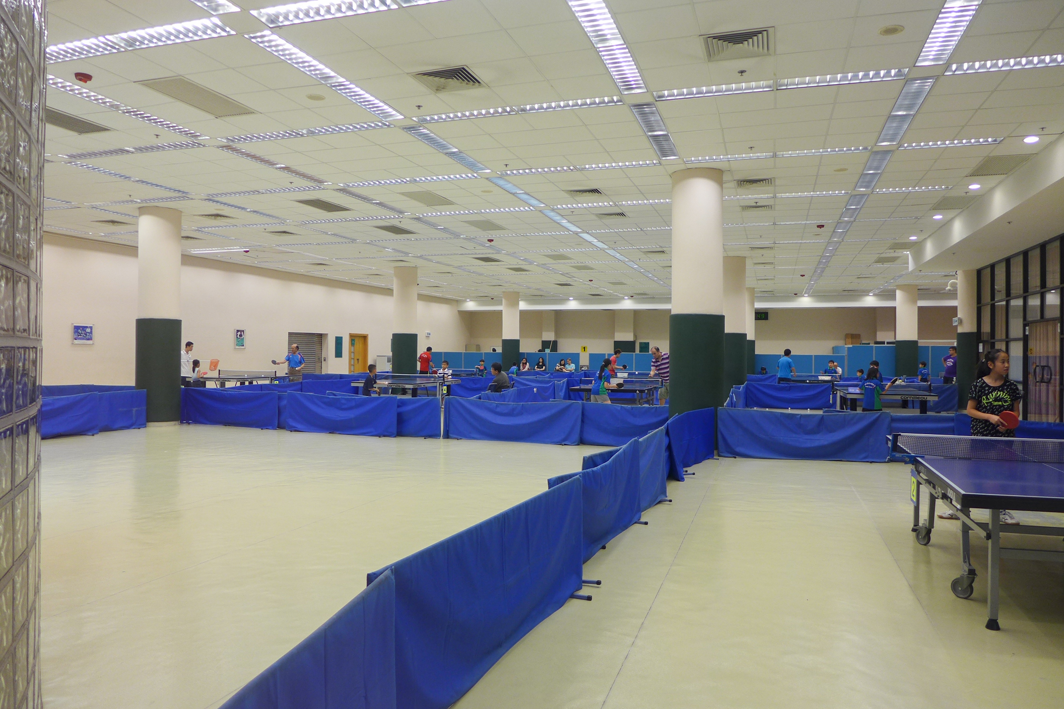 Ho Man Tin Sports Centre Table Tennis Room